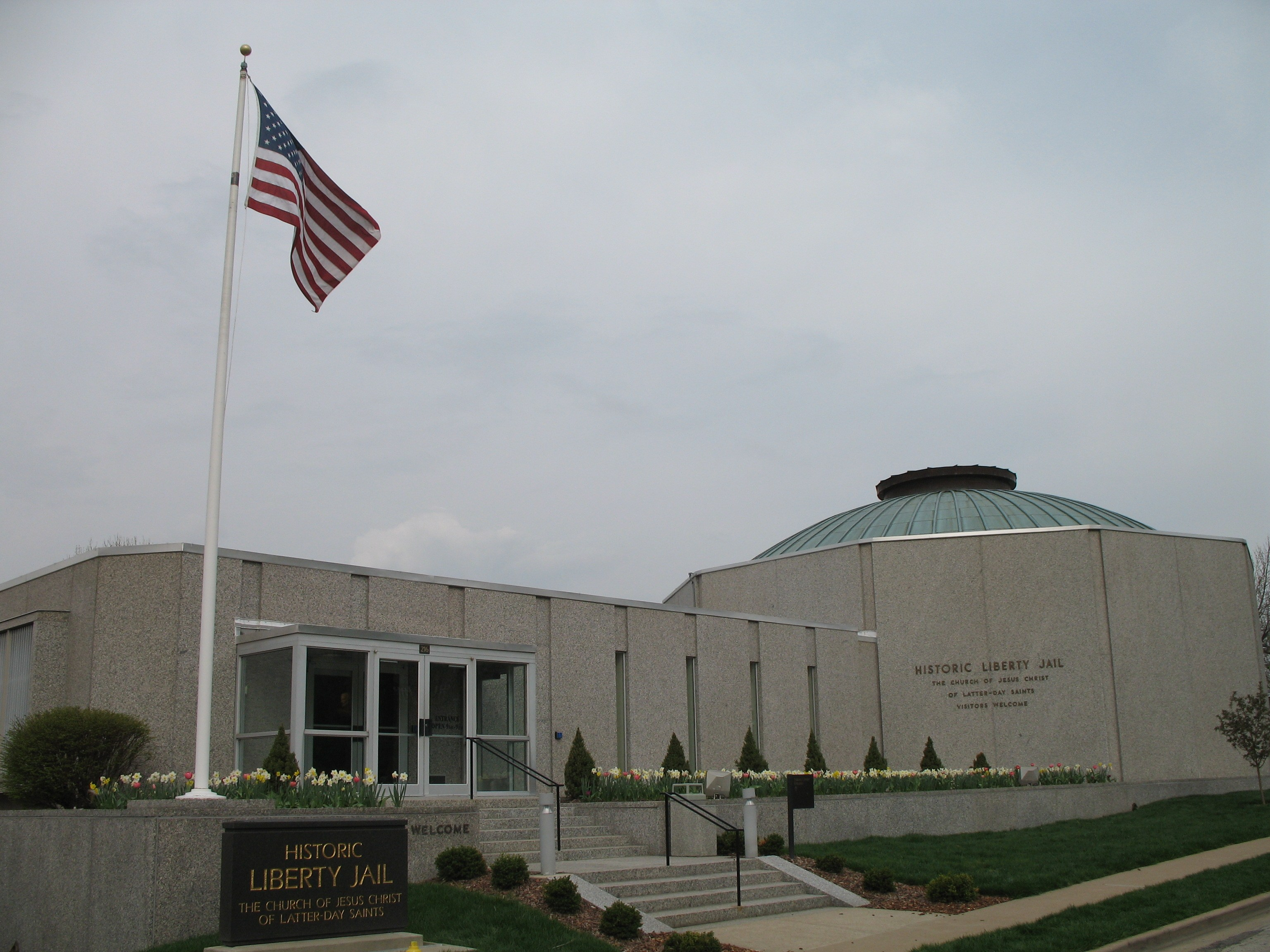 Exterior of Liberty Jail. Photo by poster in March 2007.